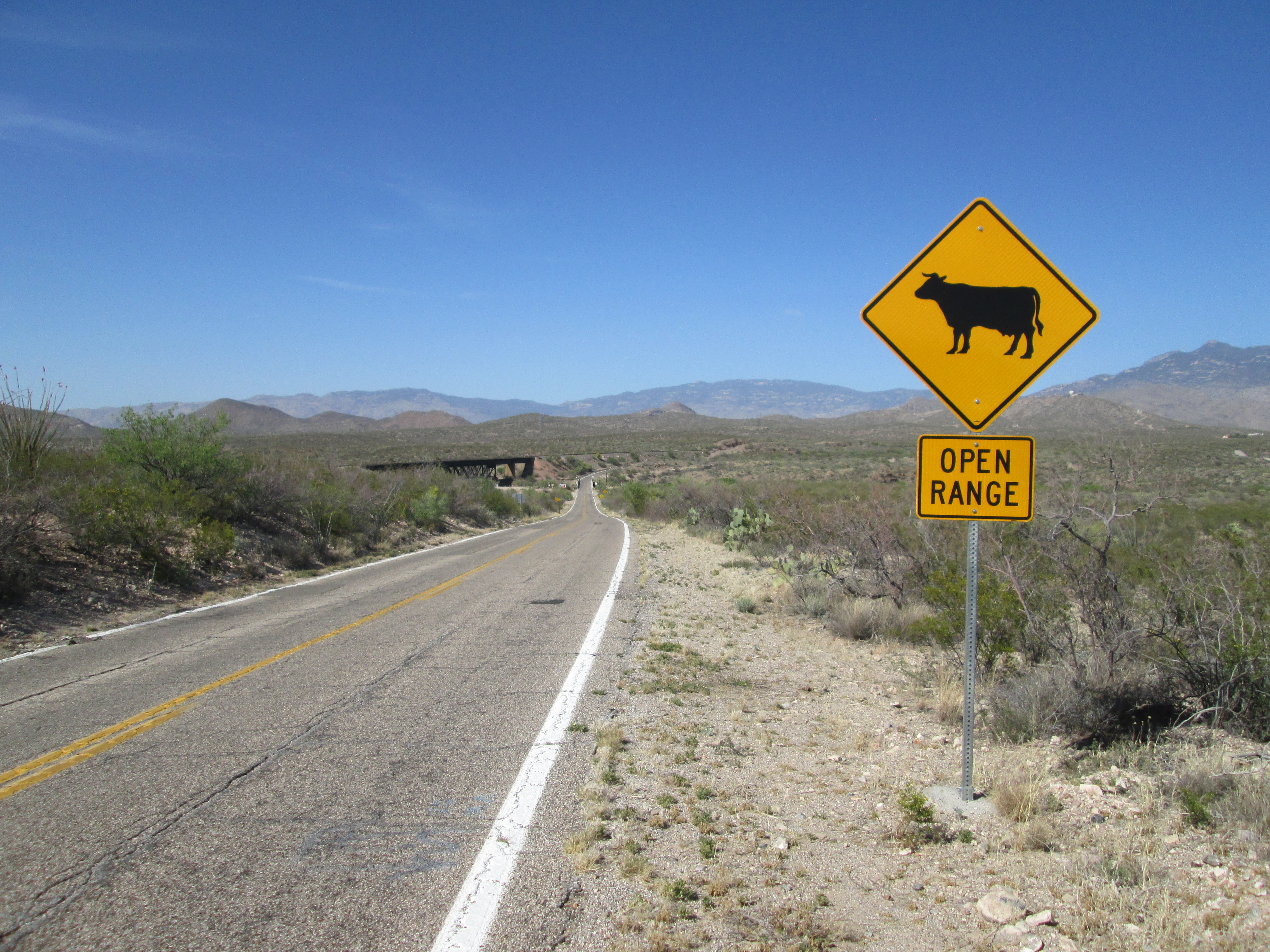 An open range sign along the Interstate 10 (I-10) Frontage Road (AKA: Marsh Station Road) in eastern Pima County, Arizona. The "Three Bridges" area of the Cienega Creek Natural Preserve is in the distance. The Rincon Mountains are in the background.